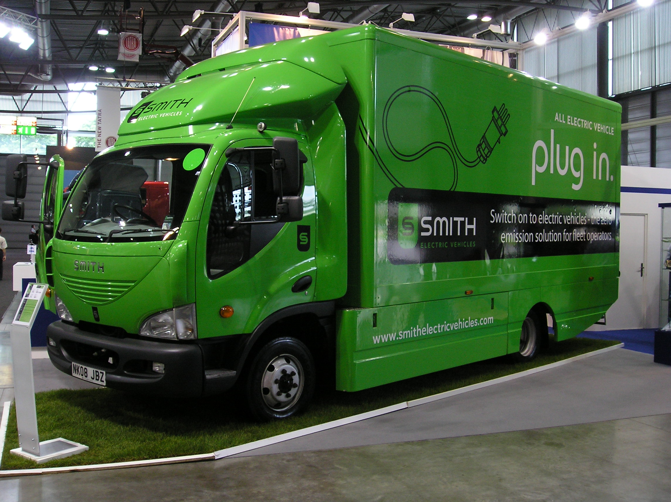 Smith Newton all-electric delivery truck manufactured by Smith Electric Vehicles exhibited at Autotec 2010